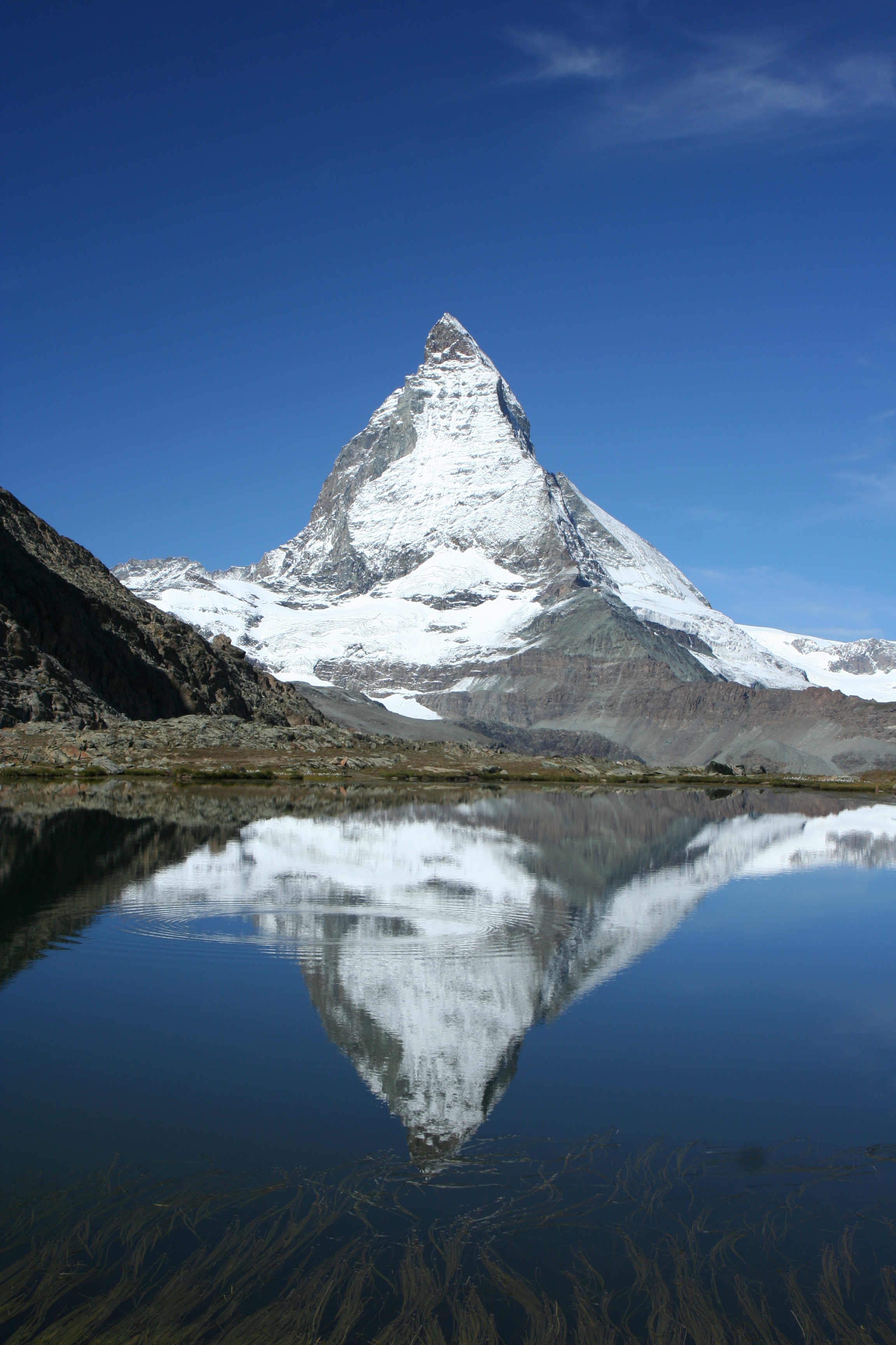 Matterhorn (4,478 m, Walliser Alps) mirrored in Riffelsee, view from Rotenboden.